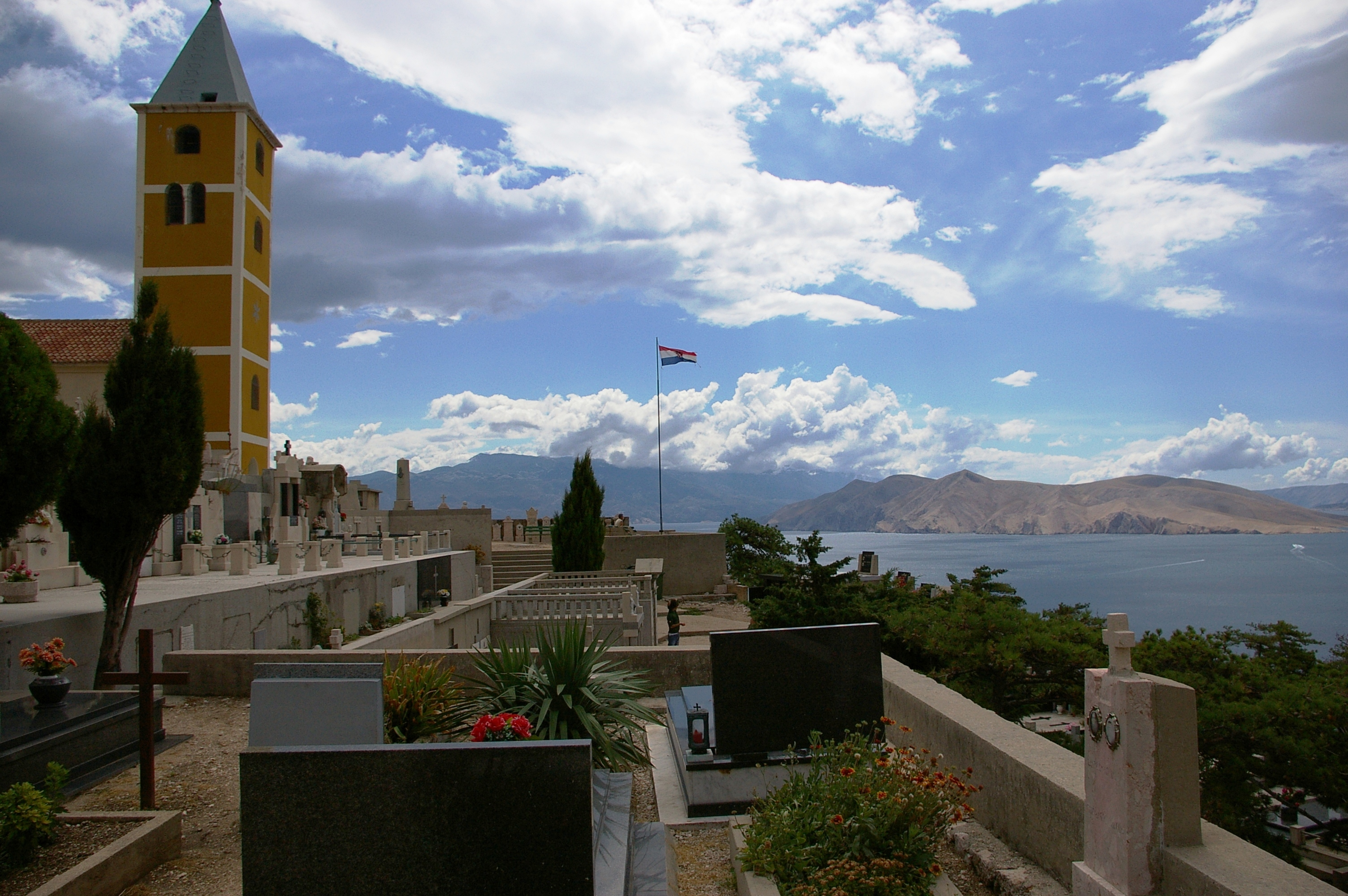 Cemetery Church St. Ivan.